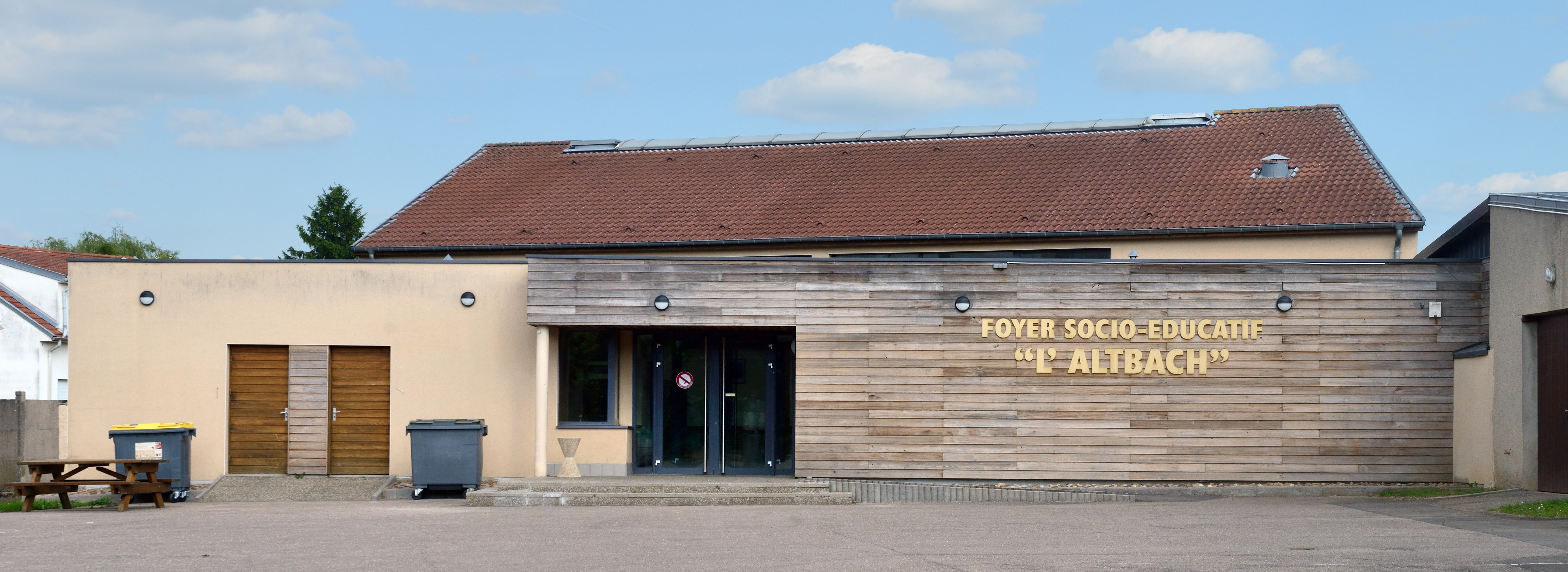 Socio-cultural centre in Mondorff, department of Moselle, France